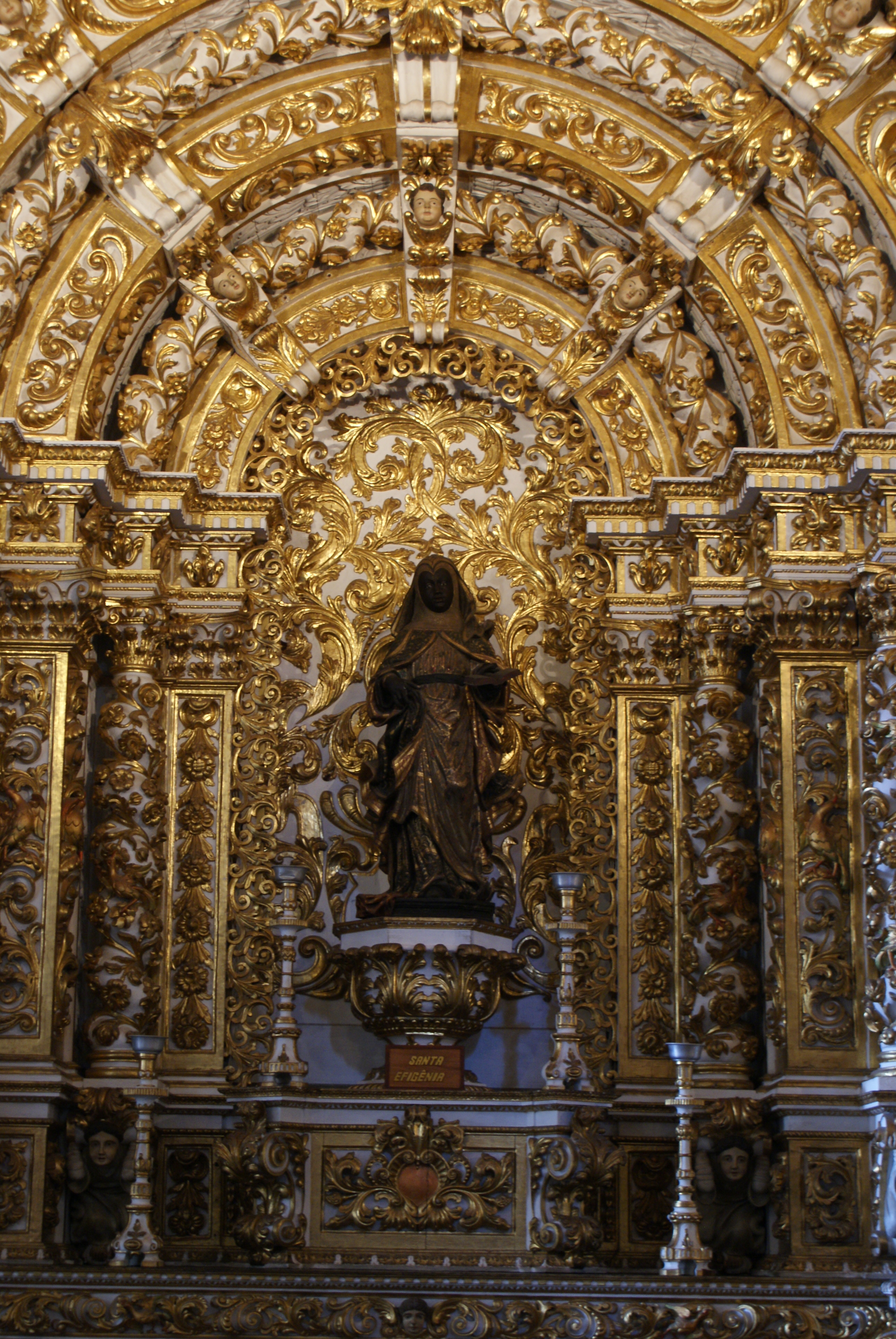 Statue of Ephigenia